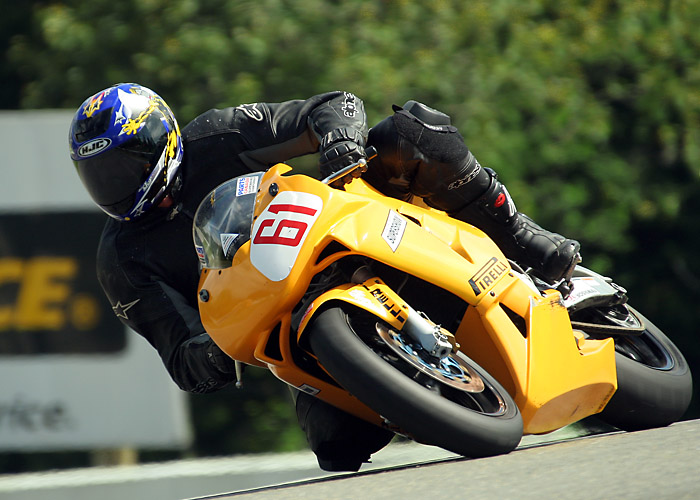 Motorcycle rider, Mosport, Ontario